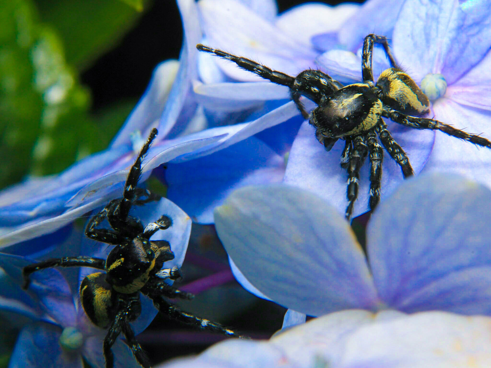 Competition - jumper spiders- in Parque Estadual da Serra da Cantareira - núcleo Águas Claras